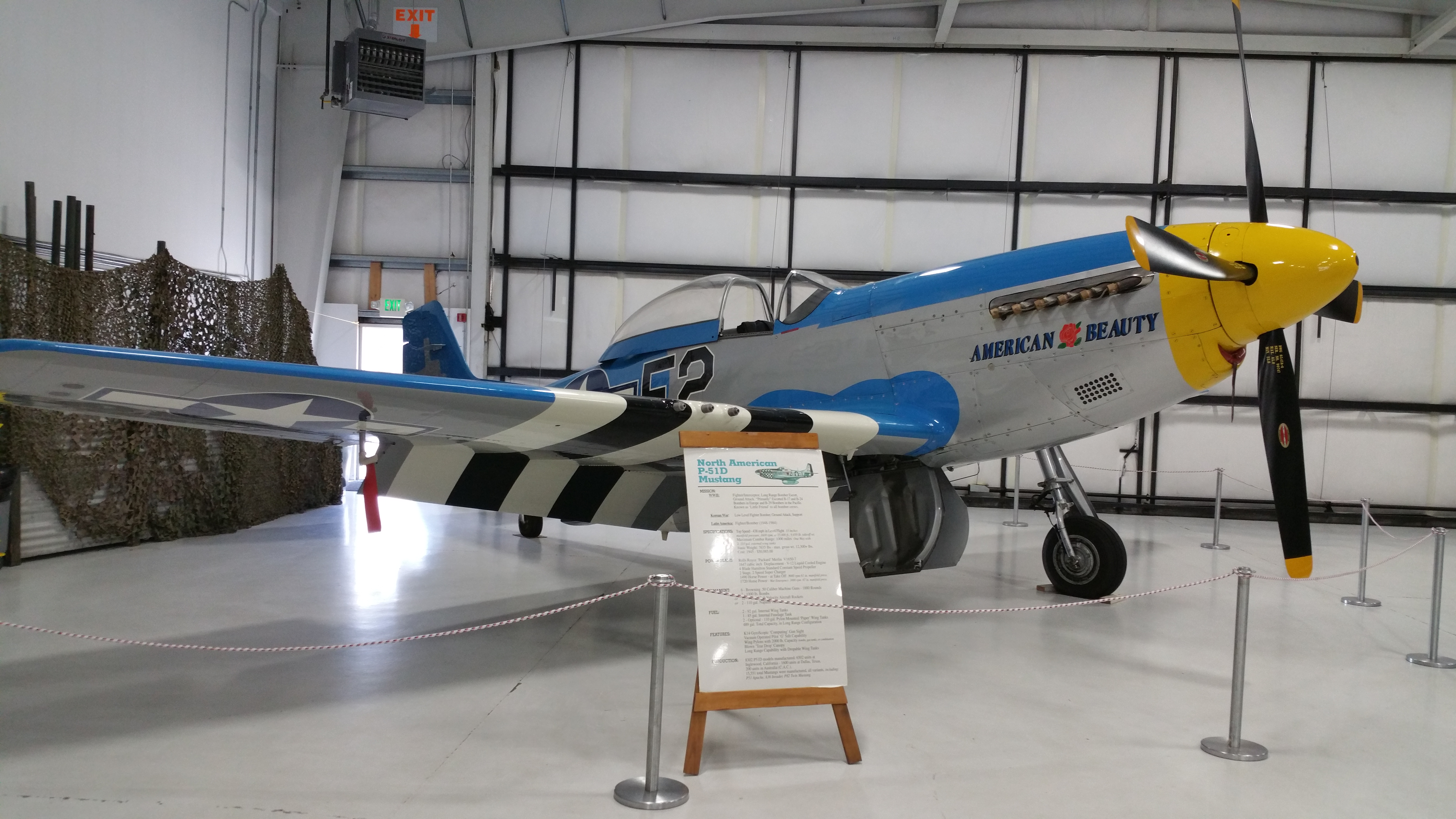 P-51D right side at Olympic Flight Museum